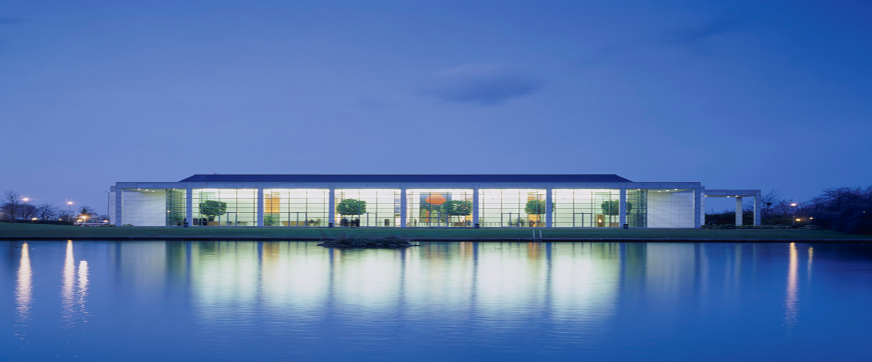 testing